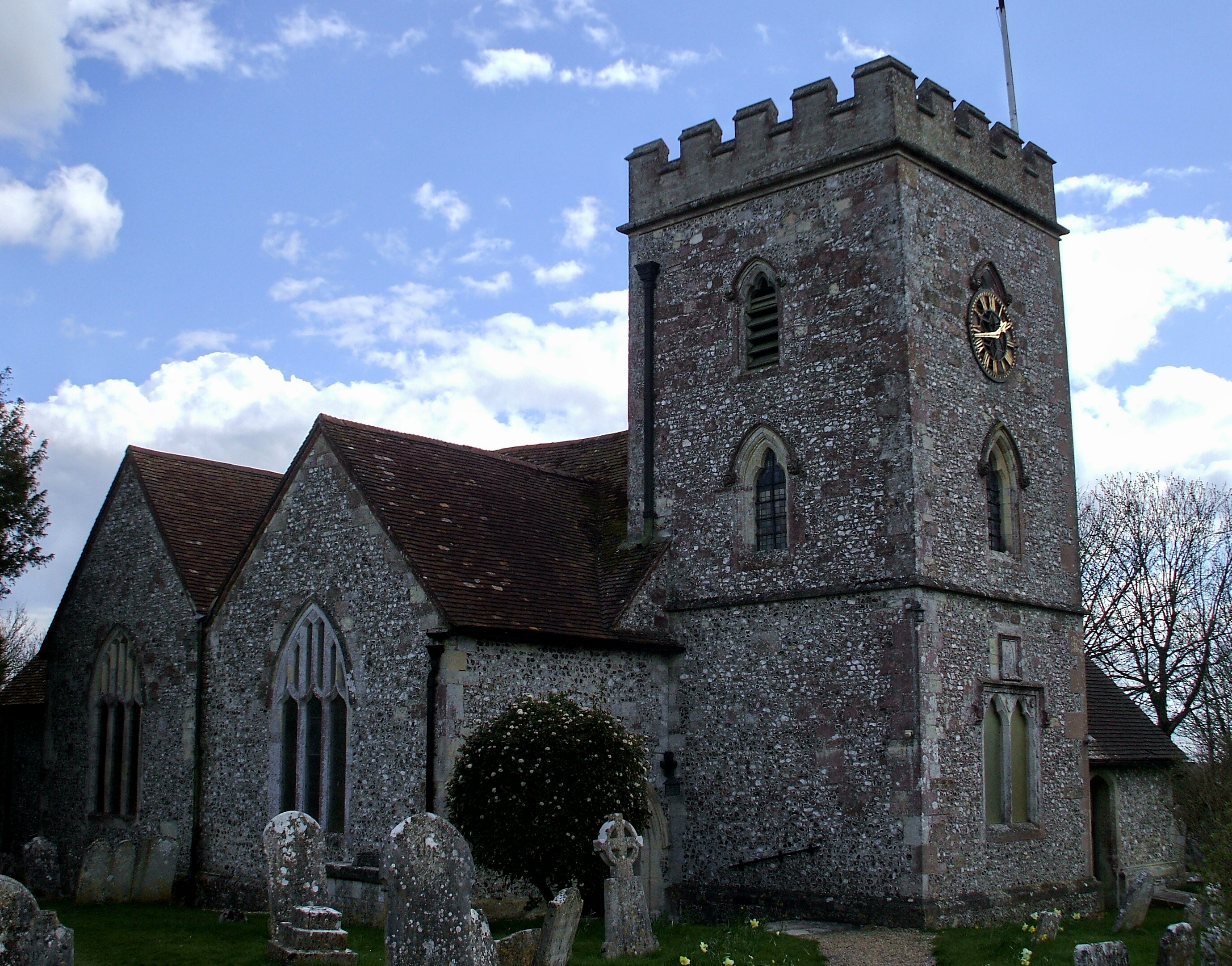 St Andrew's Church, Owslebury, Hampshire, UK